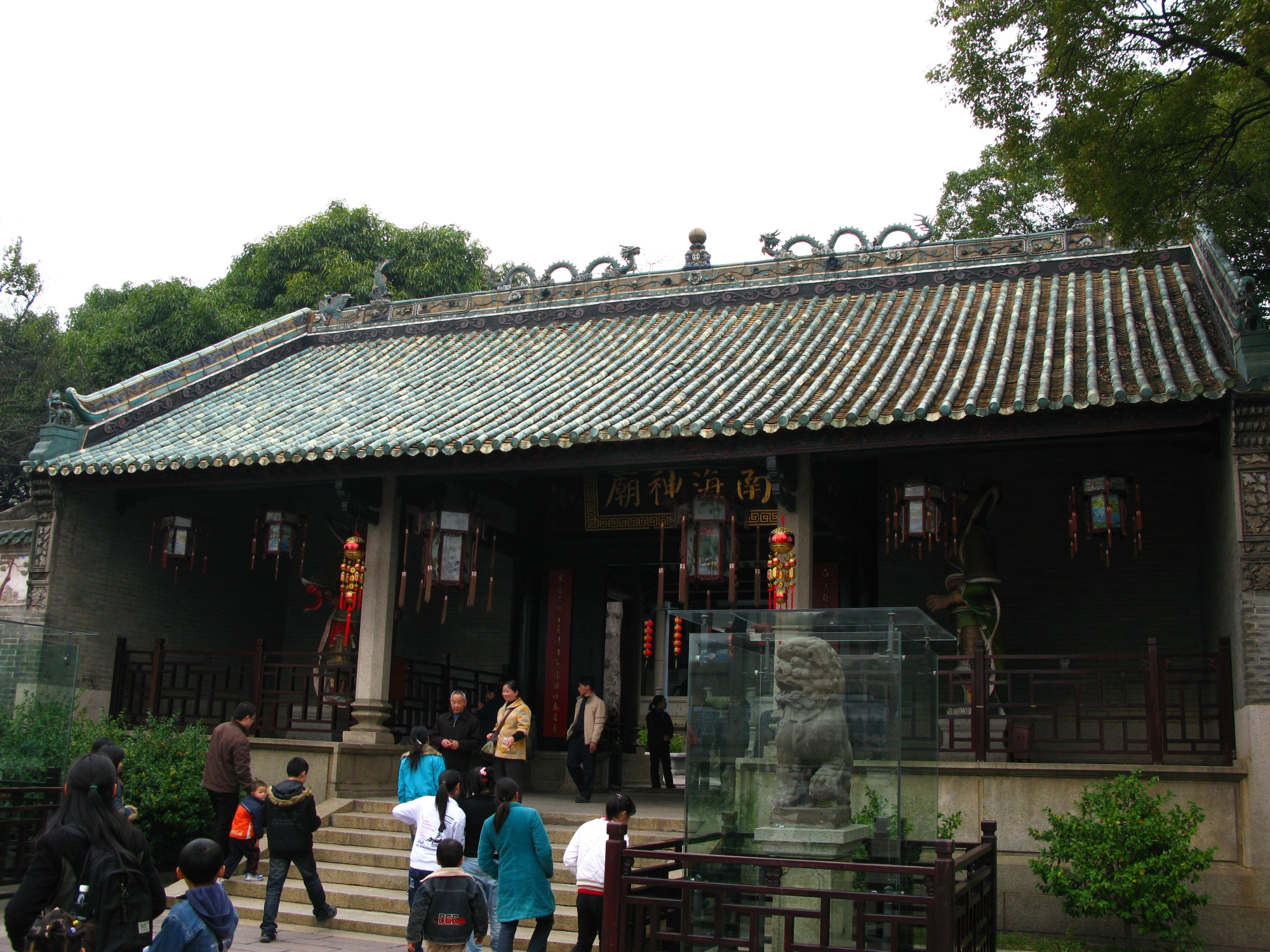 Nam Hoi(Nanhai) King Temple in Canton, China.